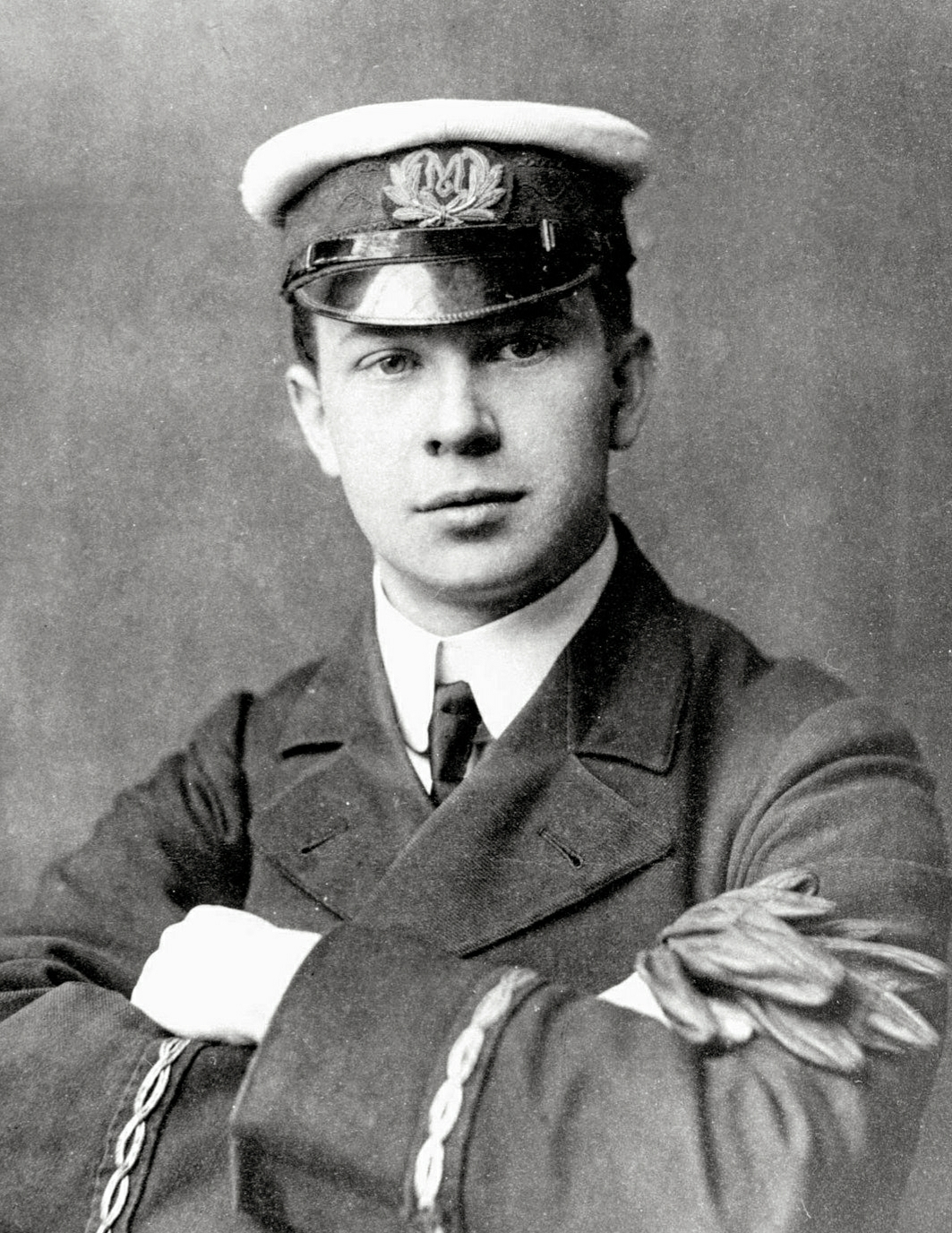 Personal photo of Jack George Phillips, RMS Titanic Radio Operator (public domain image taken over 100 years ago)